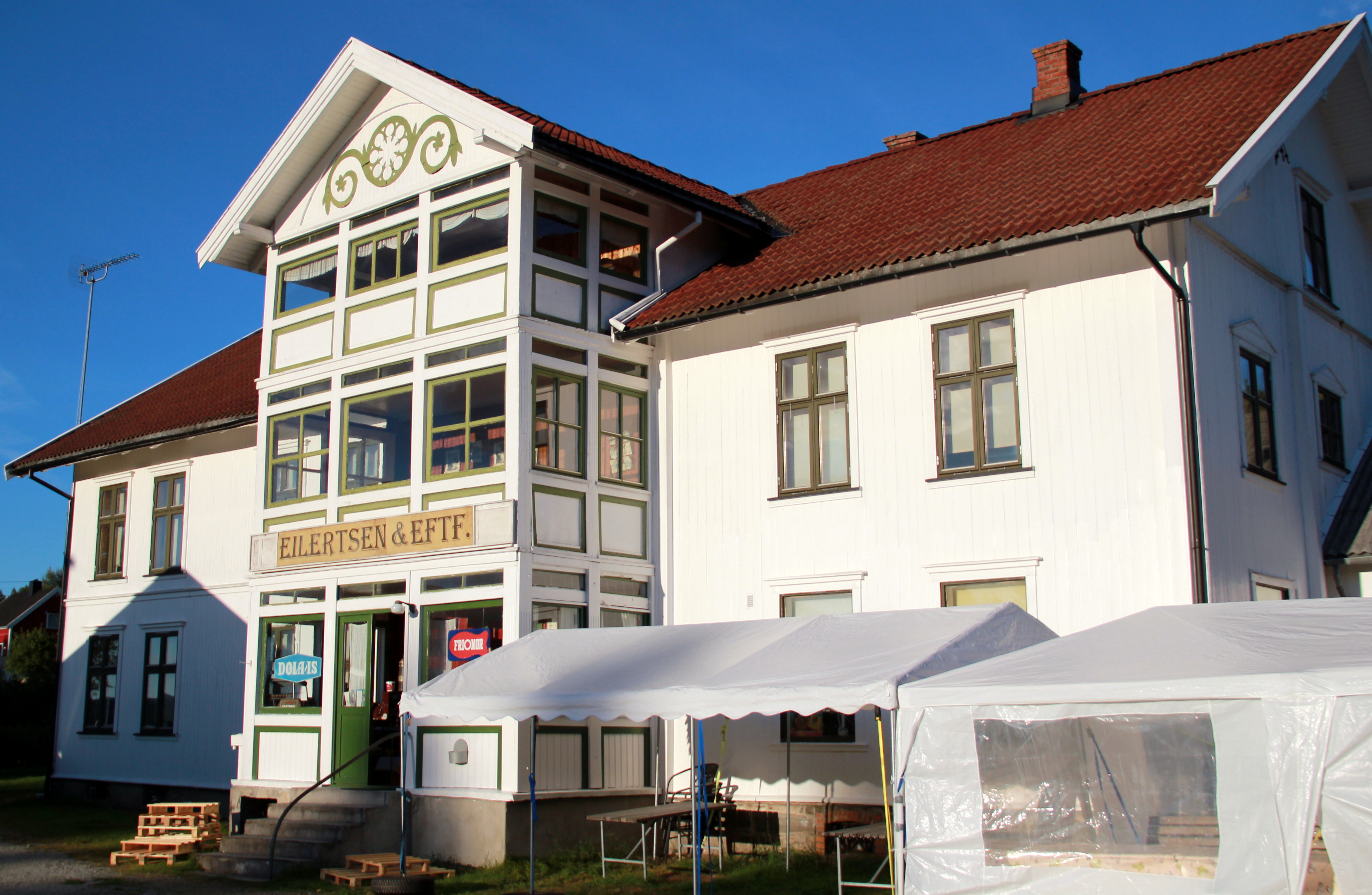 Setskog Landhandelmuseum